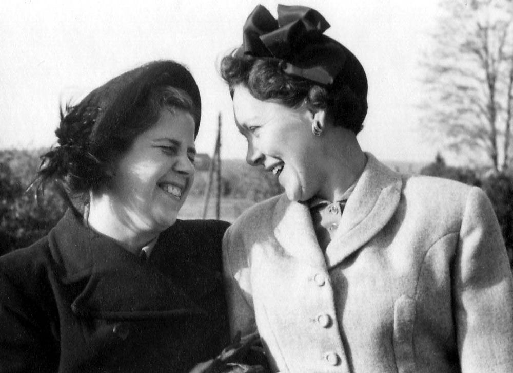 Bengta Ridderstedt Bolander & Birgit Anderson Ridderstedt, as released by image owner FamSACPlace: Probably Örebro, Sweden